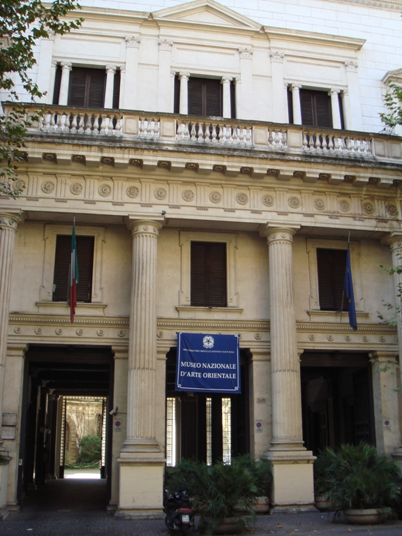 National Museum of Oriental Art, Rome, Italy. Personal photograph 2006.